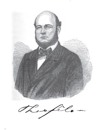 Extraído do Tomo III de Obras Posthumas de A. Gonçalves Dias